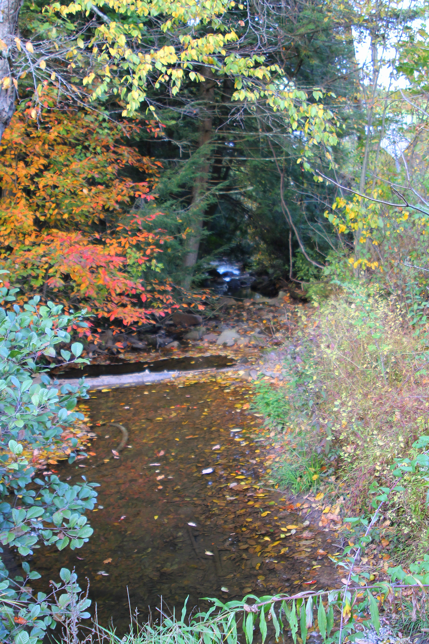 Klingermans Run very near its mouth